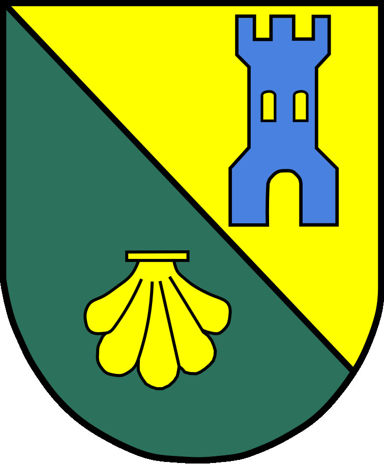 Coat of arms of Lassing, Styria